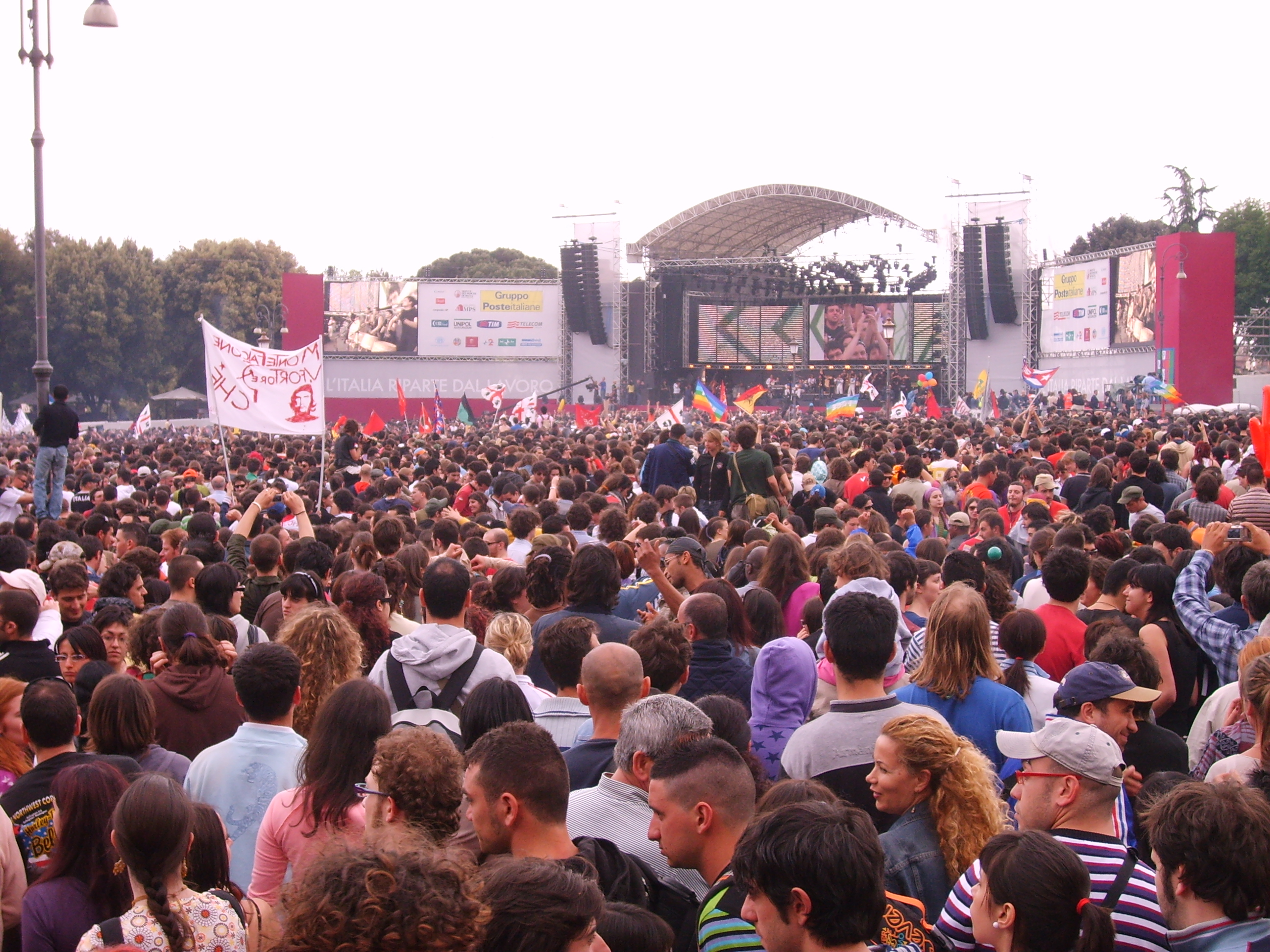 Each year, on the 1st May there is a huge free concert in "San Giovanni" square in Rome, Italy. In 2007 there were approximately 700000 people [1]. This is a view of the crowd watching the concert